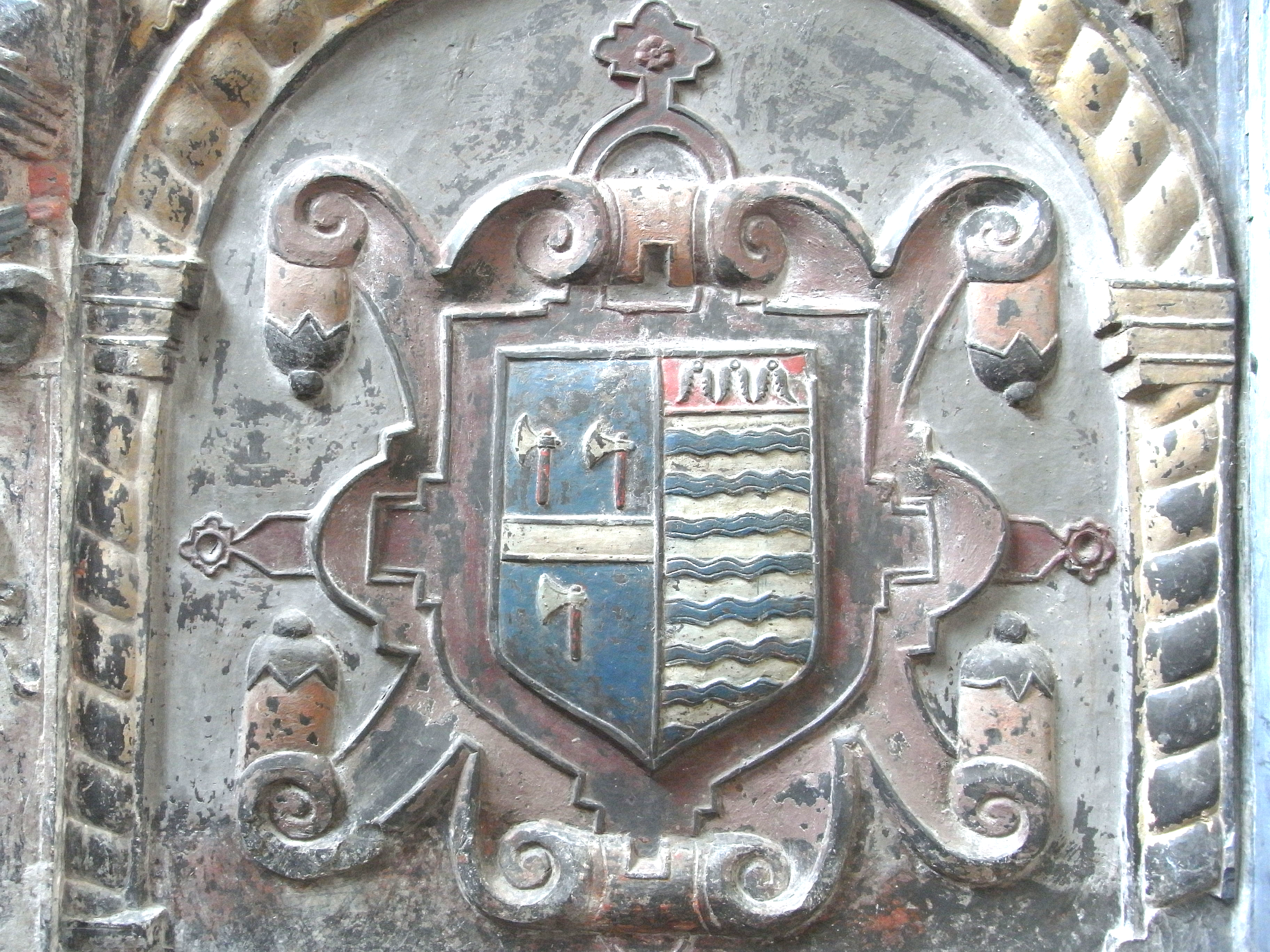 Arms of Wrey impaling Smith of Totnes (same as Smith of Exeter). Arms of Bernard Smith (c.1522-1591) of Totnes, Devon, MP for Totnes in 1558 and mayor of Totnes 1549-50 and c.1565-6. As seen on Monument to John I Wrey (d.1597) in Tawstock Church, Devon. Wrey's son John II Wrey was the 3rd husband of Smith's daughter Eleanor Smith. The arms of Smith of Totnes, as shown in Tawstock Church impaled by Wrey: Barry undé of sixteen argent and azure, on a chief gules three barnacles or. In Pole, Sir William (d.1635), Collections Towards a Description of the County of Devon, London, 1791, p.502, Smith arms blazoned as: Barry undé of six argent and azure on a chief gules three barnacles or.